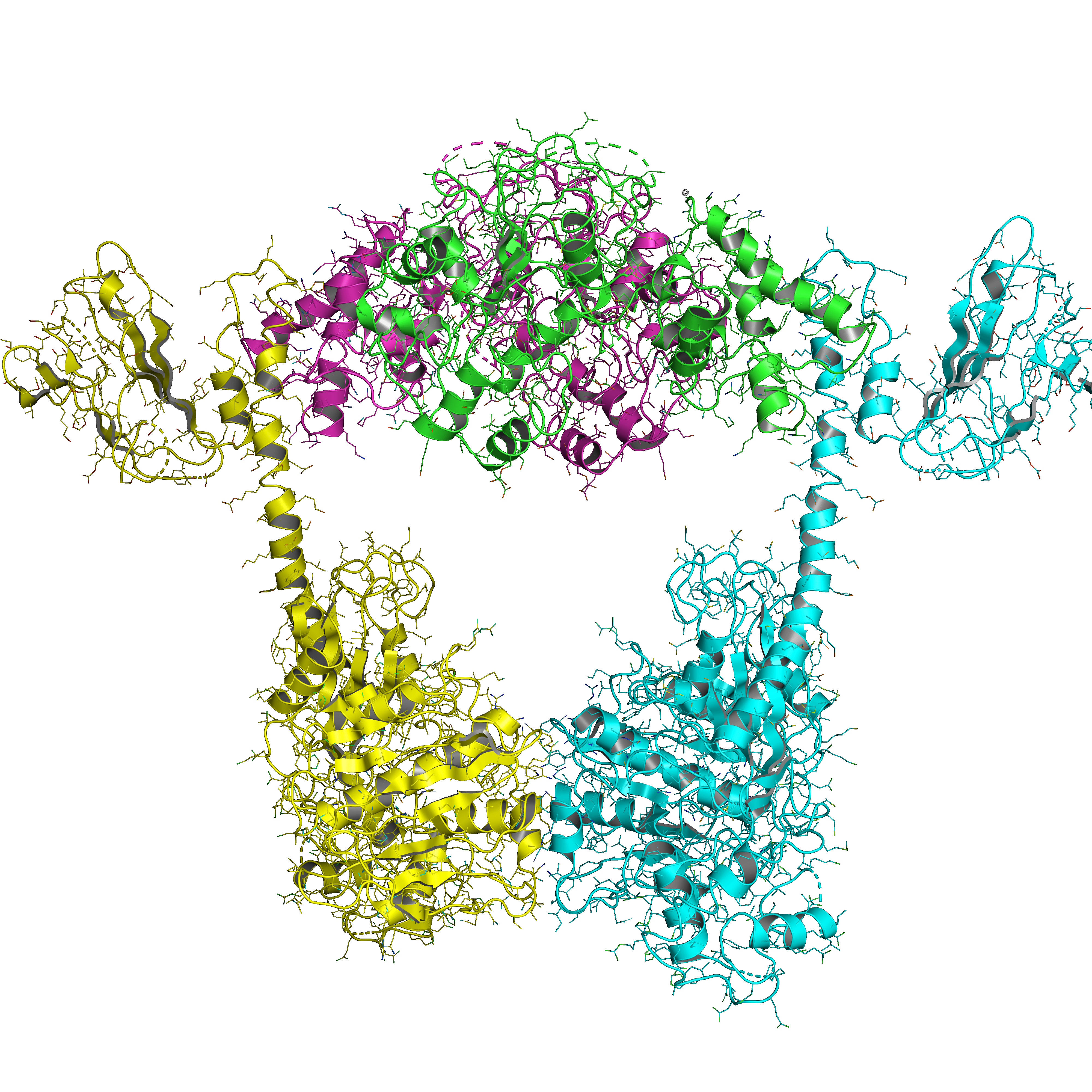 Structure of topoisomerase VI as depicted in PDB: 2Q2E​ Bioassembly 1. Arrangement is similar to bacterial IIA members. Chains are colored differently. The ATPase domain lies on the bottom of the molecule, while the Toprim domain lies on the top; each forms a DNA gate.